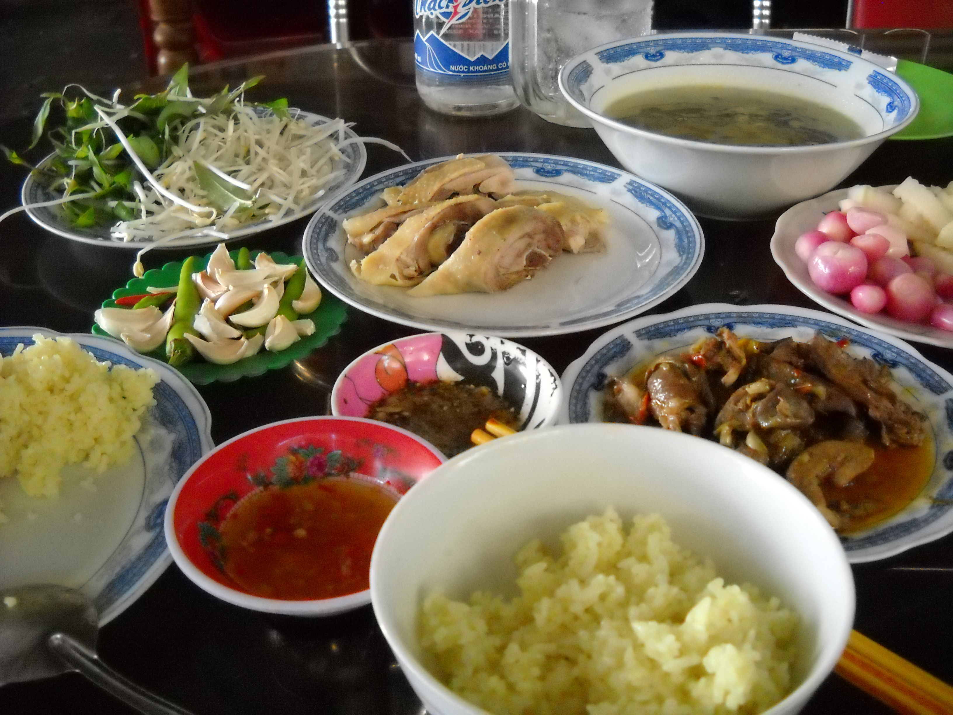 Chicken with rice dish in Tam Ky (Quang Nam province)